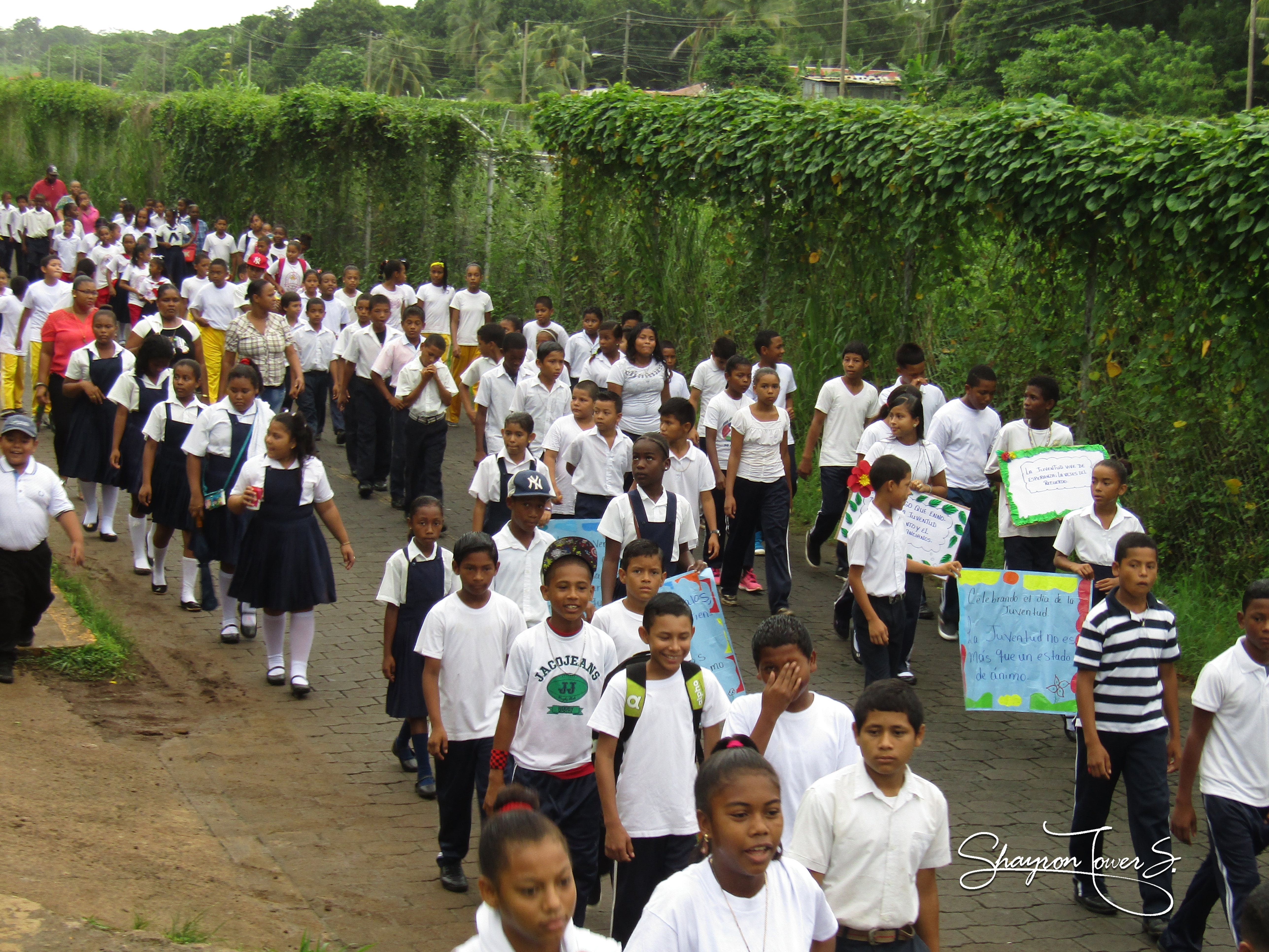 Desfile Semana de la Juventud 2016.